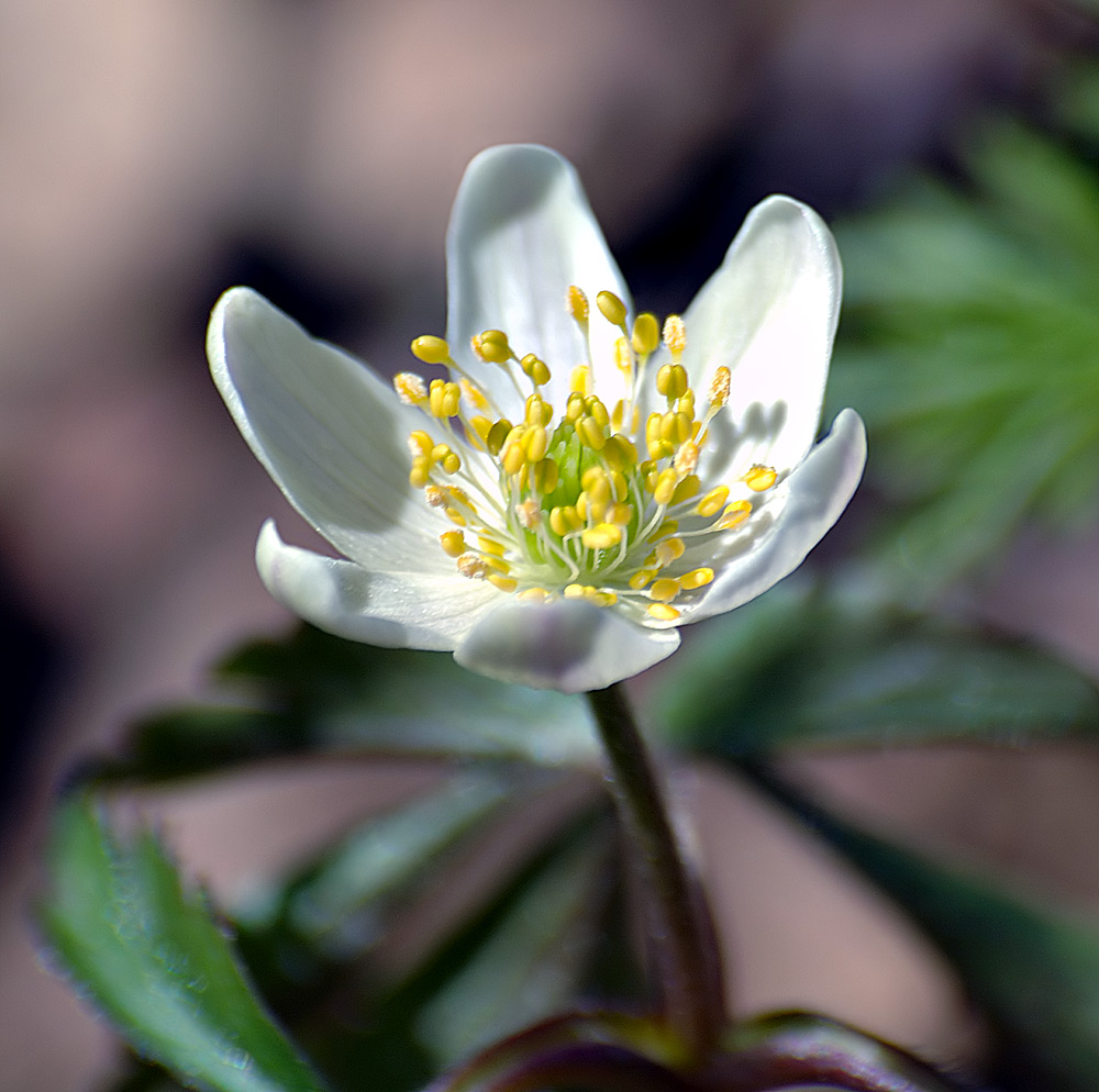 This image shows a windflower (Anemone nemorosa).